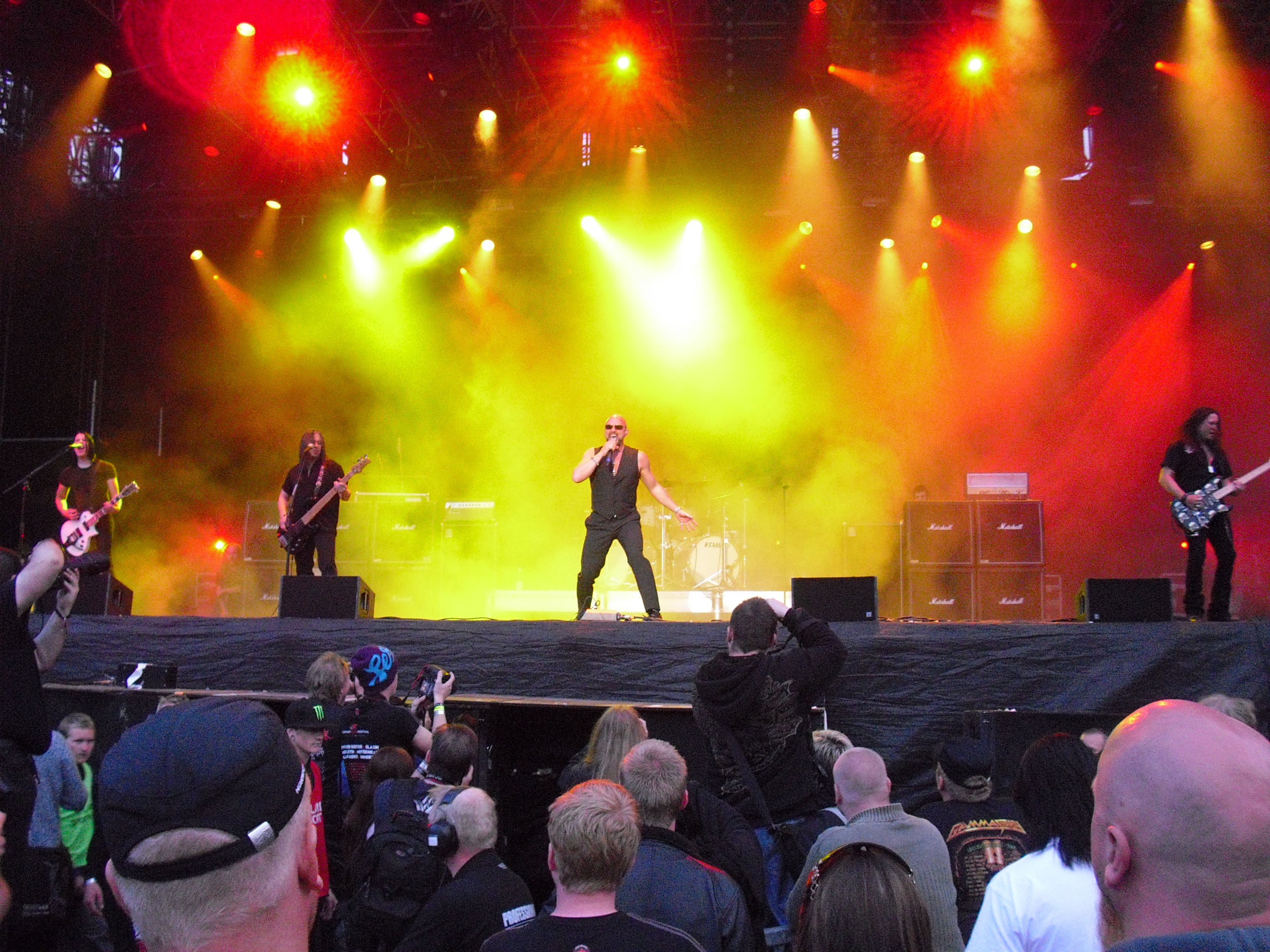 Queensrÿche performing live at Norway Rock Festival 2010